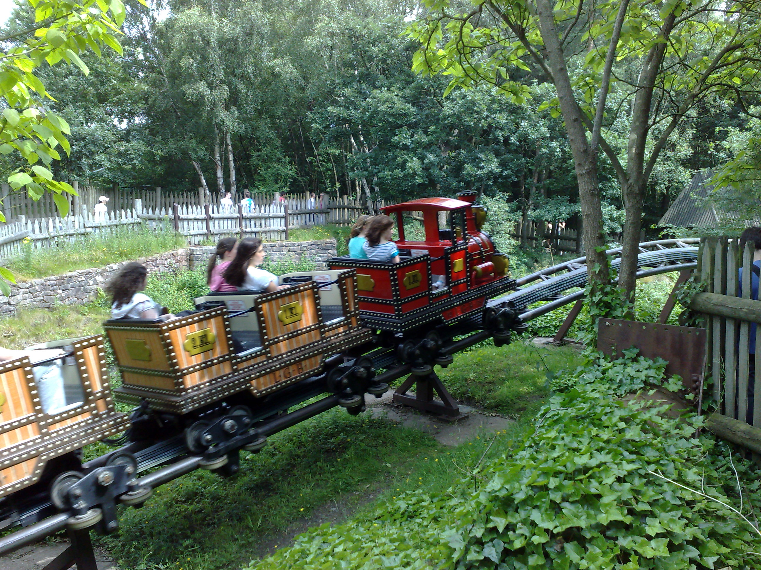 A Runaway Mine Train at Alton Towers Theme Park, Staffordshire, England